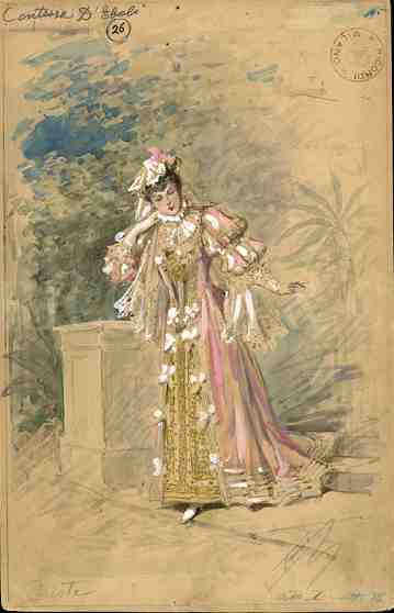 Costume design (1884) for princess Eboli, mezzosoprano. Atto 1,2 Don Carlo by Alfredo Edel Colorno (1856–1912)